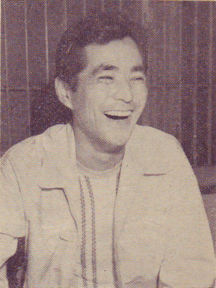 Tatsuya Mihashi (Actor of Japan). taken in 1954.